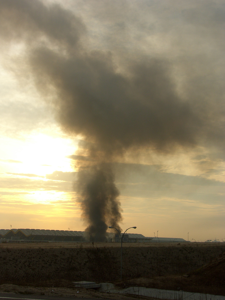 Barajas airport on an ETA terrorist attack (30th December)Barajas under terrorist attack